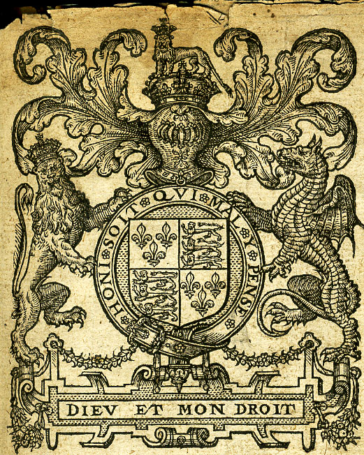 Engraving of Queen Elizabeth I's Coat of Arms, from a parliamentary pamphlet dated 1581